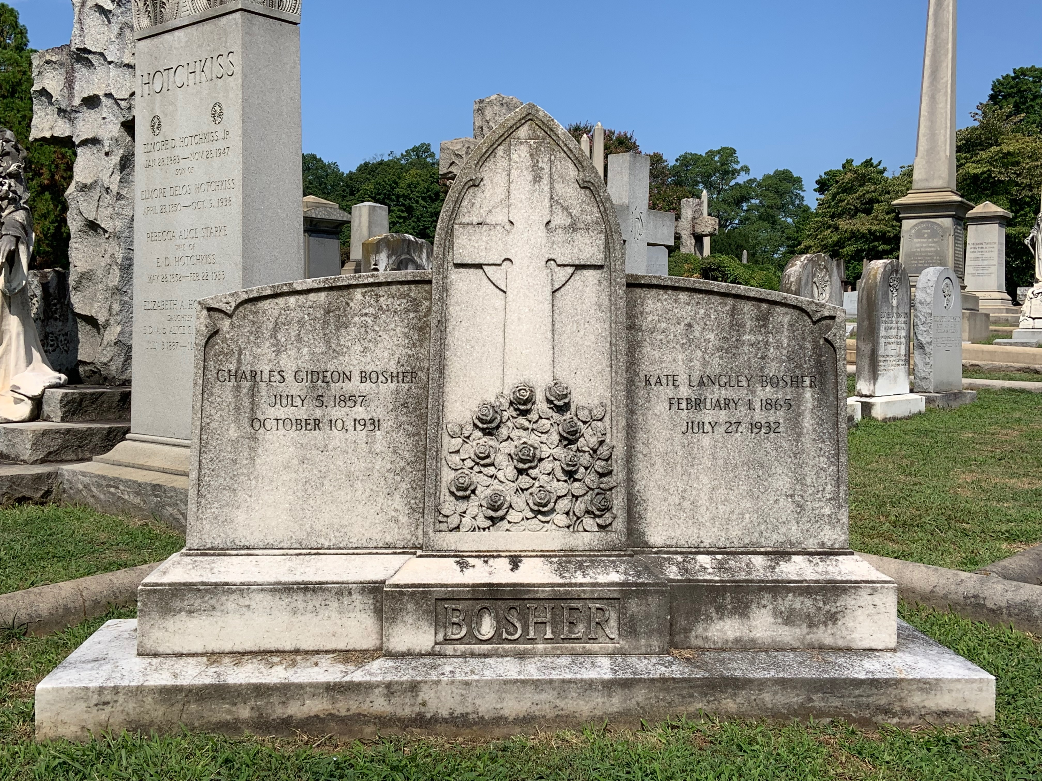 Gravestone of Charles Gideon and Kate Langley Bosher, located in Hollywood Cemetery in Richmond, Virginia, U.S.